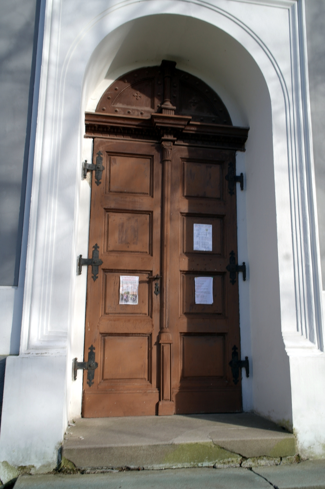 Church of the Nativity of the Virgin Mary, Záboří (Kly), Mělník District, Main portal.